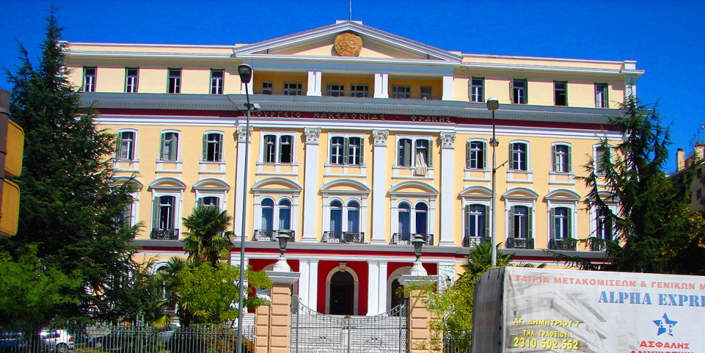 a@a Ministry of Makedonia - Thraki Thessaloniki Greece